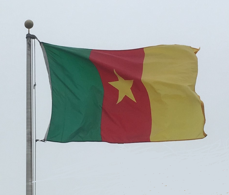 Flag of Cameroon on pole on flagpole at International Linguistic Center in Dallas, TX